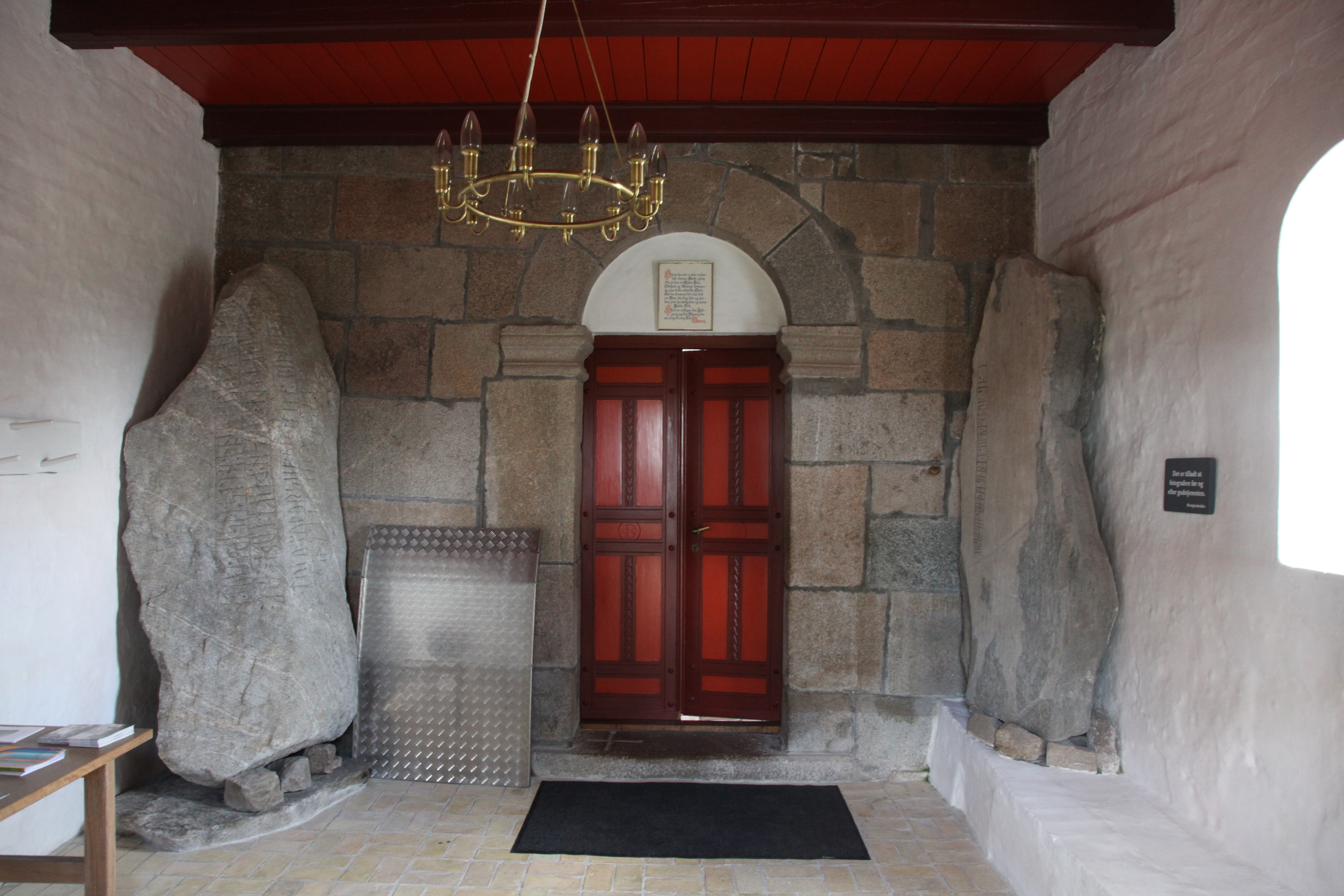 Gunderup Kirke just south of Aalborg, Denmark